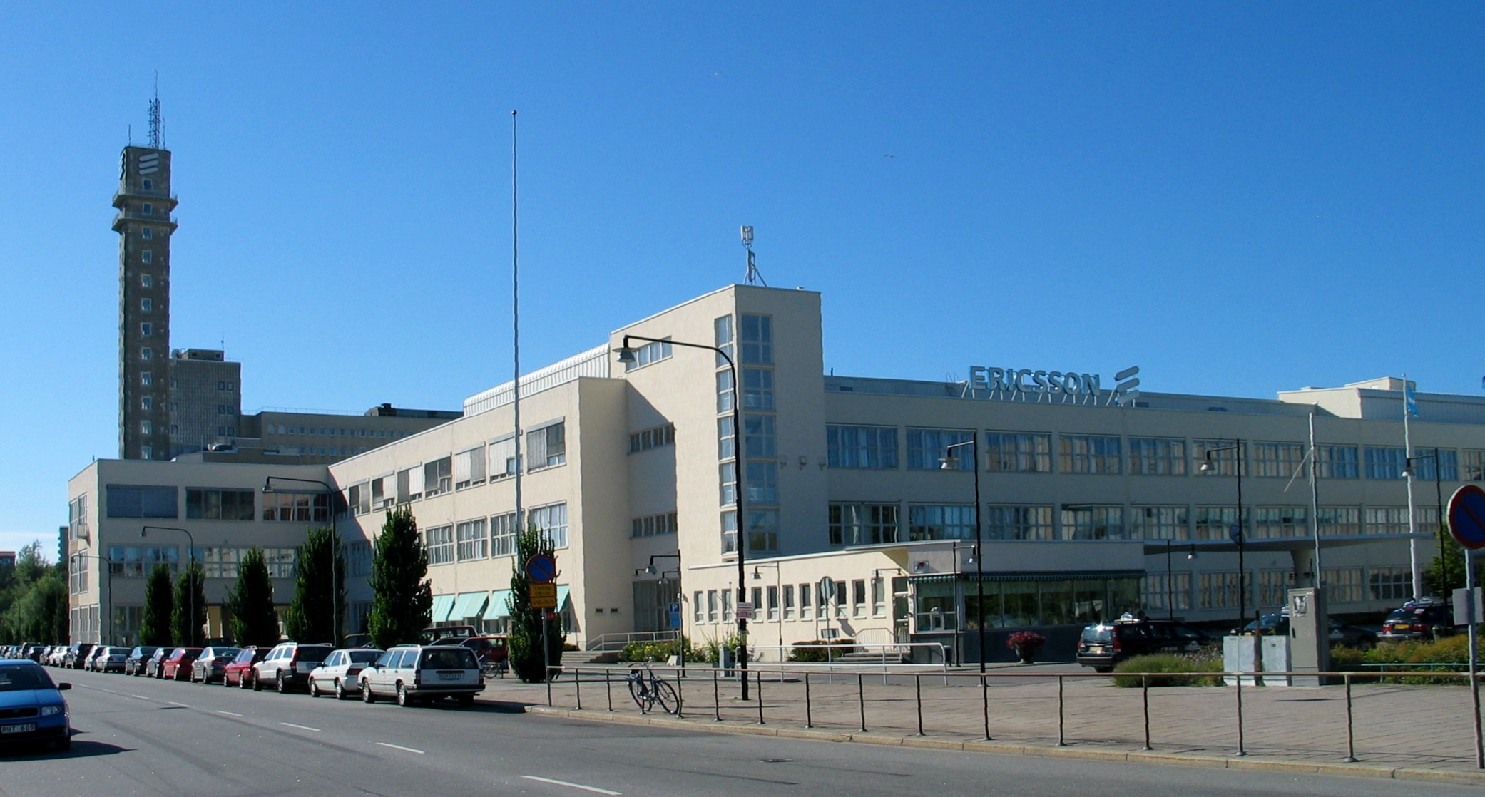 Ericsson building at telefonplan in Stockholm, Sweden.